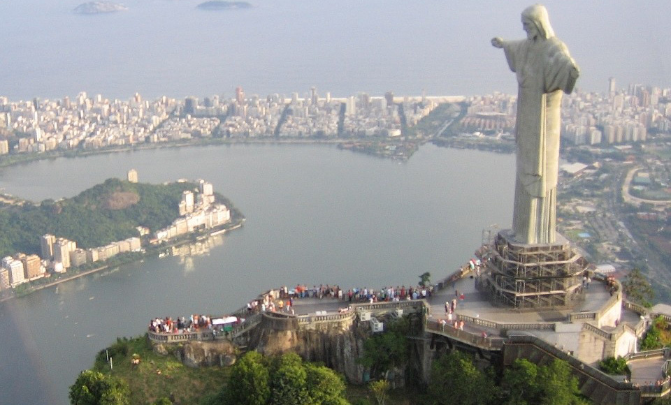 Cristo Redentor statue on top of Corcovado, a mountain towering over Rio de Janeiro. In the background the Ipanema and Leblon beaches separate the lagoon from the Atlantic Ocean.